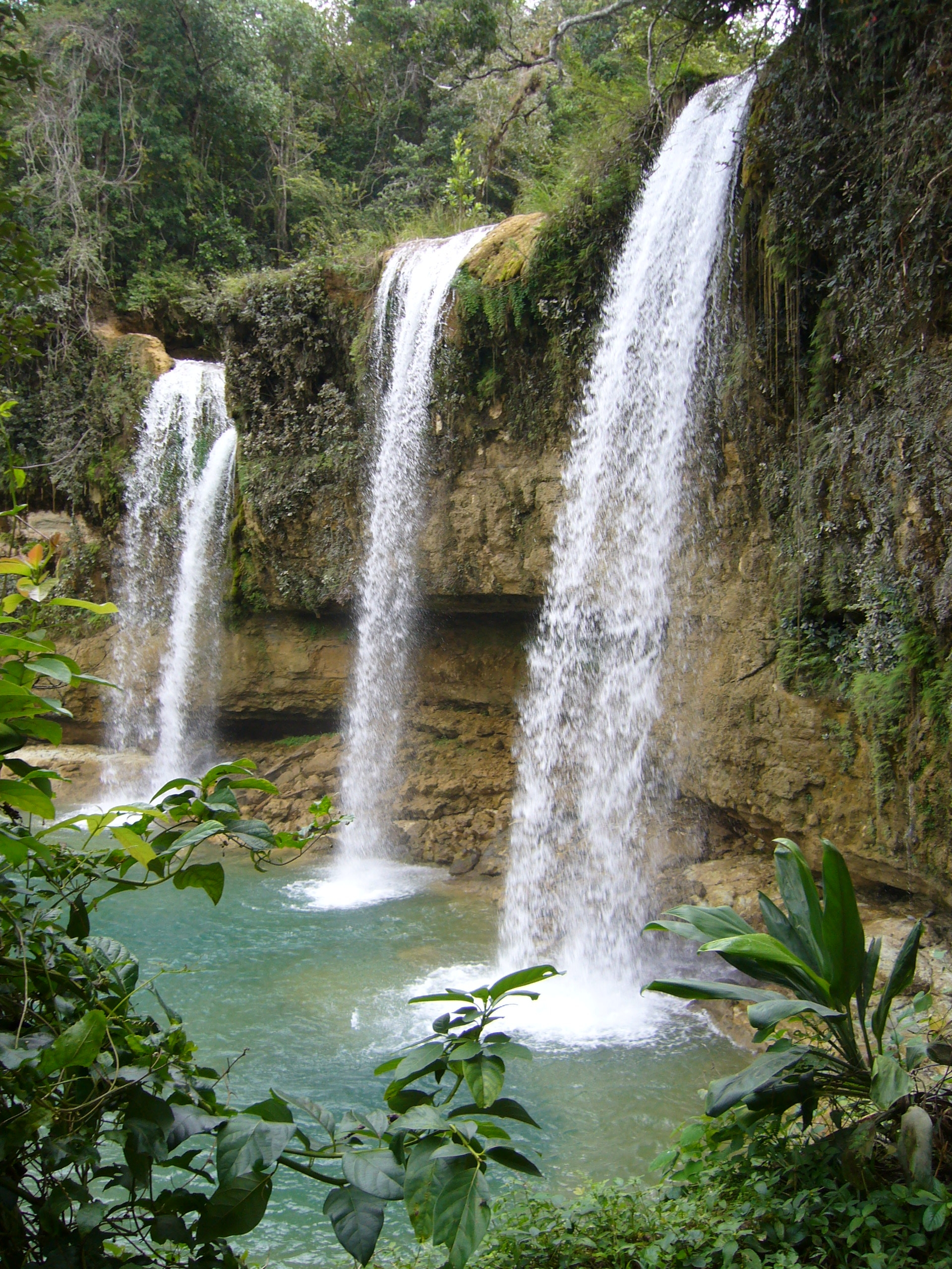 Bayaguana Waterfall northeast of Santo Domingo, Dominican Republic